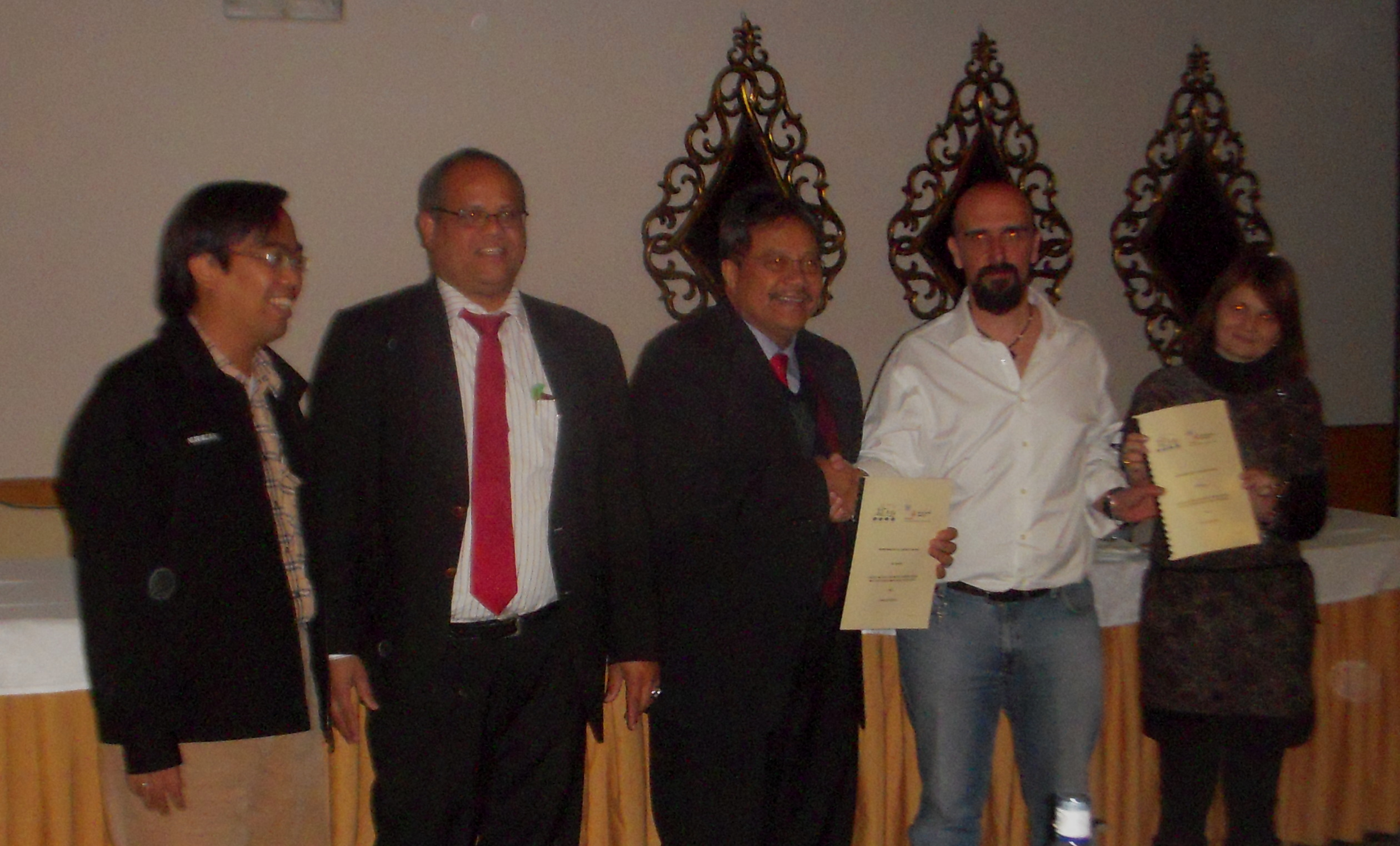 Luis Falcon and Mohamed Salleh on the ceremony after signing the agreement between United Nations University International Institute for Global Health and GNU Solidario to deploy GNU Health Hospital Information System globally. Granada, Spain.